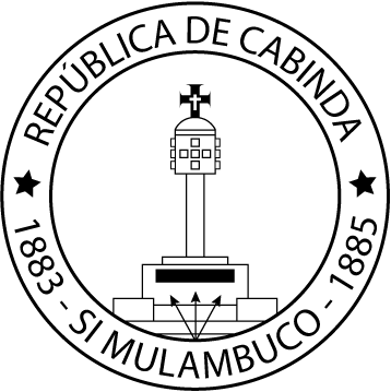 Seal of Cabinda